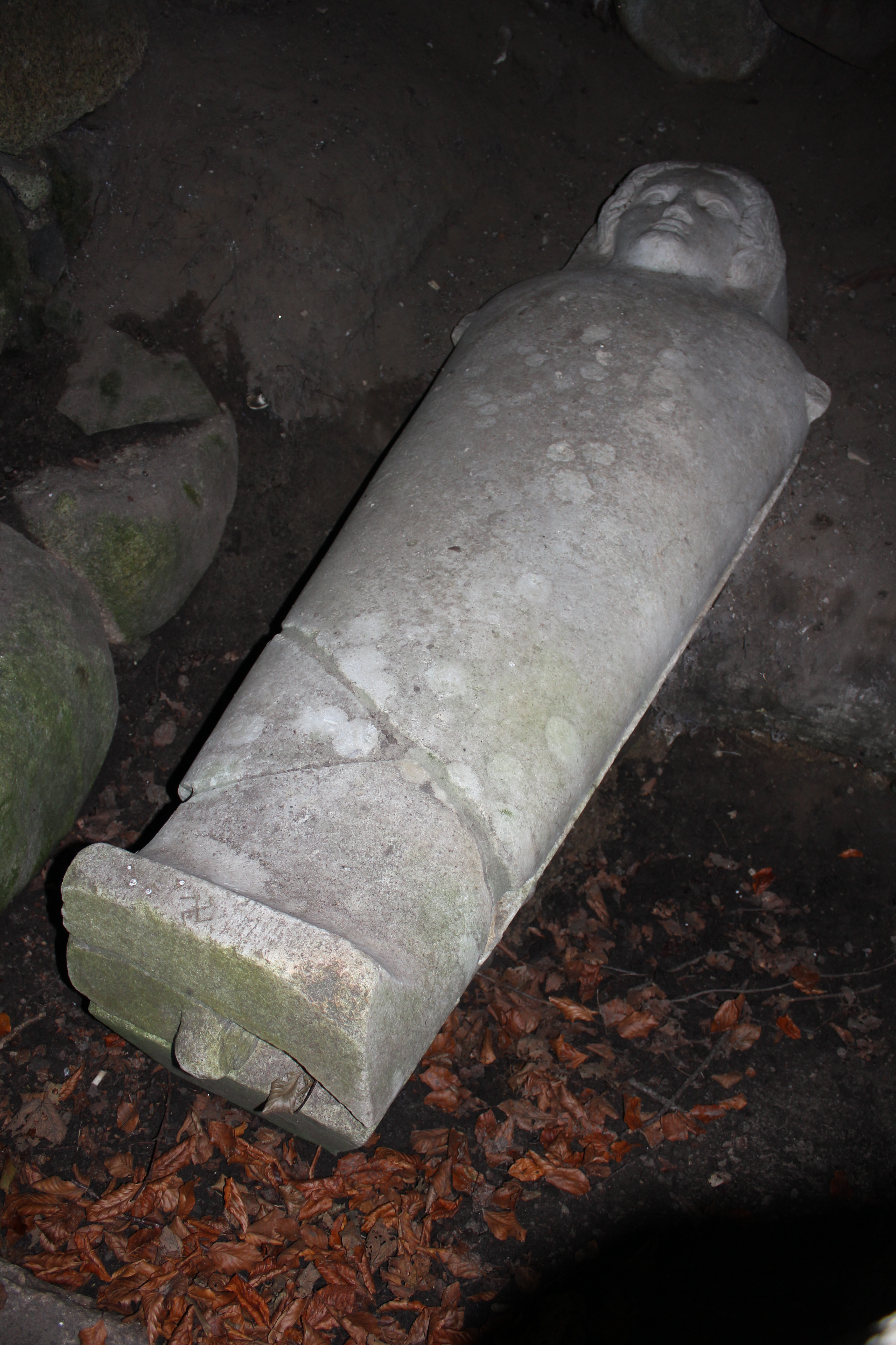 Phoenician sarcophagus in the Christiansen Park (Phönizischer Sarkophag im Christiansenpark)